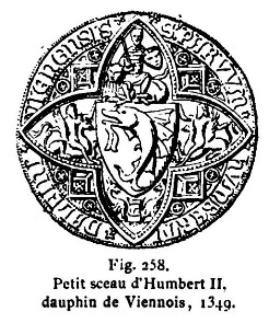 Humbert II of Viennois - 1349